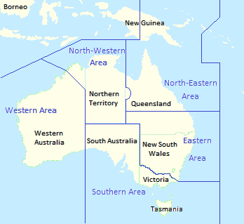 Post-war Royal Australian Air Force area commands, which were superseded by a functional system in 1953-54.